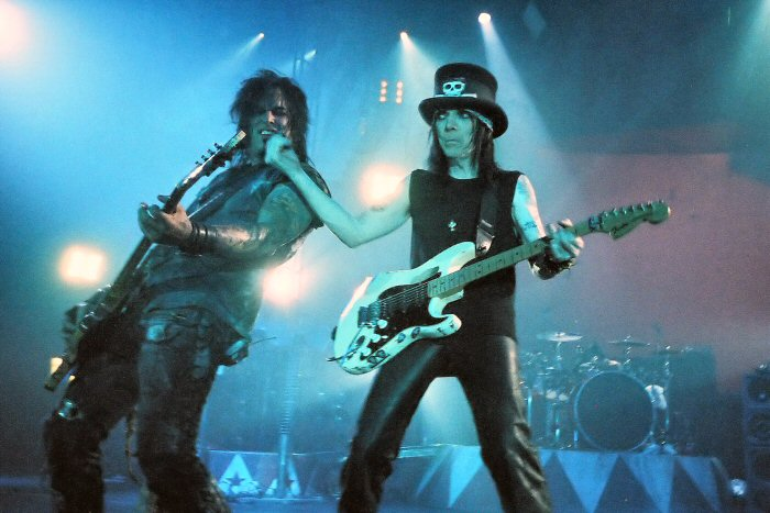 Mötley Crüe Nikki Sixx and Mick Mars of Mötley Crüe - SECC, Glasgow Scotland. 14 June 2005